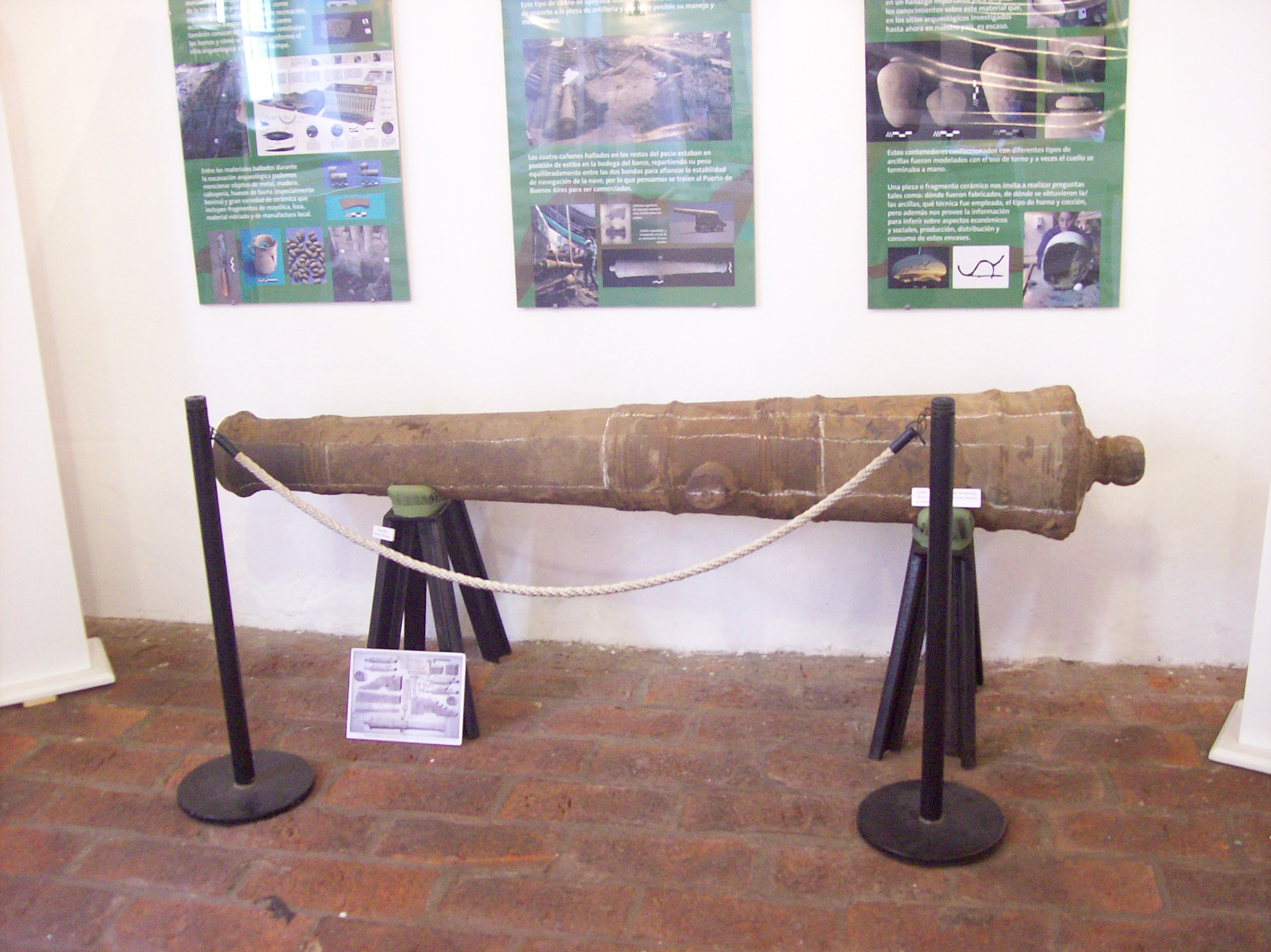 Cast Iron Canyon (900 kg) that belonged to a Spanish merchant ship sunk eighteenth century found in the Rio de la Plata. Museum: "House of Viceroy Liniers". Buenos Aires, Argentina.